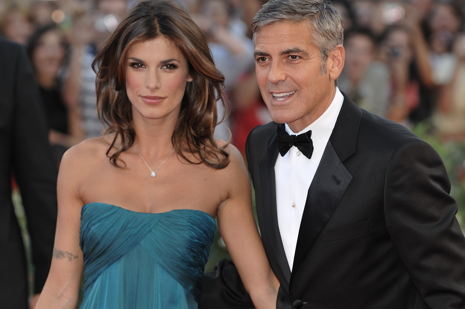 George Clooney and Elisabetta Canalis at the 66th Venice International Film Festival.